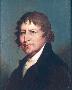 Theophilus Parsons; The Social Law Library, Boston, MA.